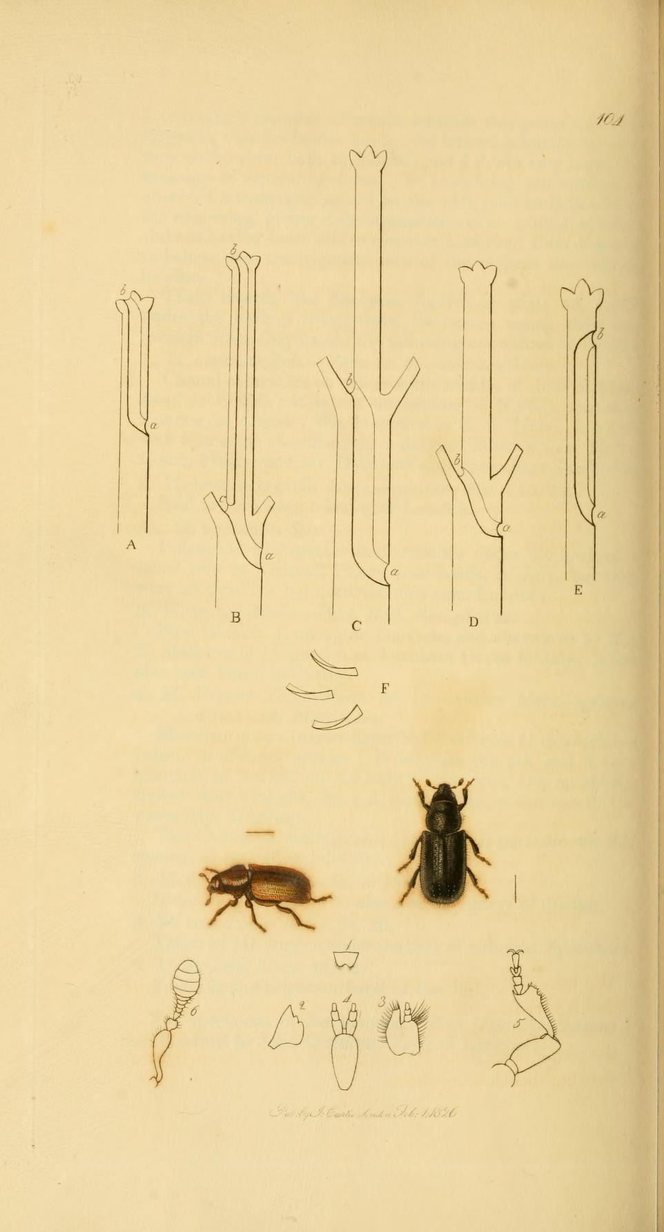 An illustration from British Entomology by John Curtis. Coleoptera: Hylurgus piniperda or Tomicus piniperda (Pine-feeding Hylurgus).